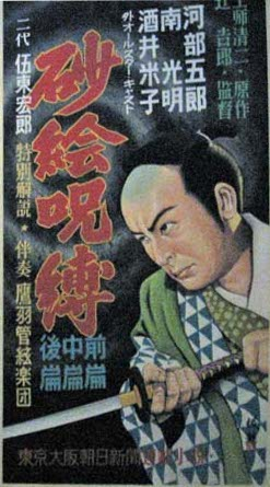 Japanese movie poster for 1927 Japanese film The Spell of the Sand Painting - part II (砂絵呪縛 第二篇 Sunae Shibari Dai-nihen).